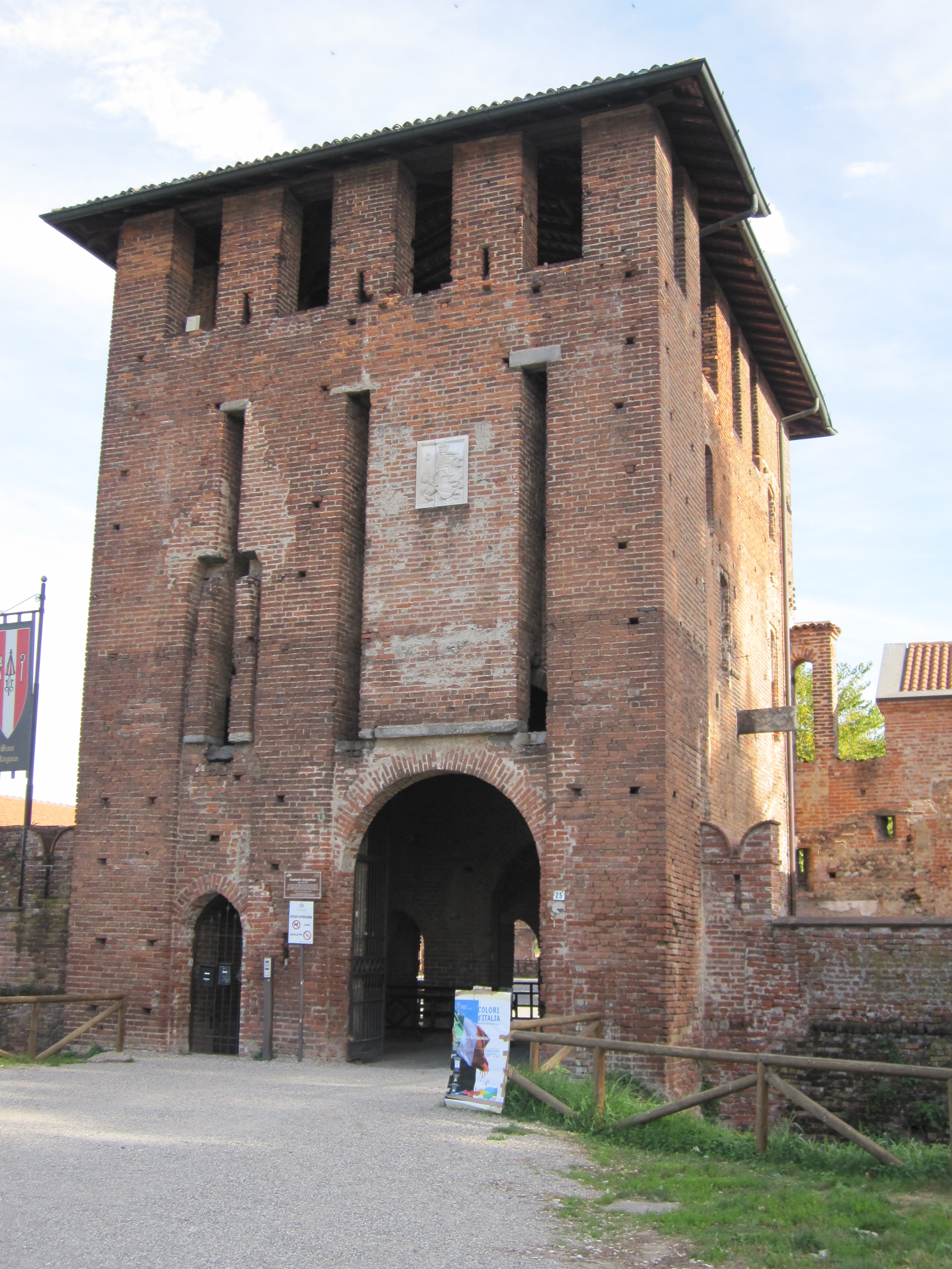 St. George's castle (in Legnano, Italy) - gatehouse